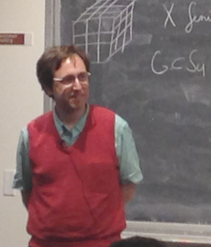 Harald Helfgott (mathematician), lecturing at IPAM in May 2014